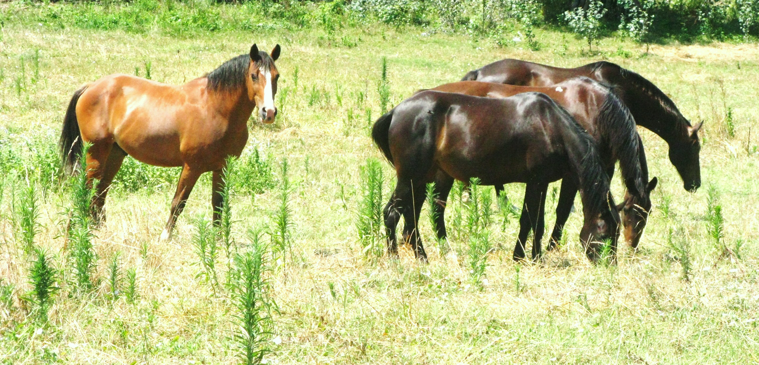 Healthy horses positive to Equine Infectious Anemia in Italian Horse Protection Association's sanctuary in Filicaja